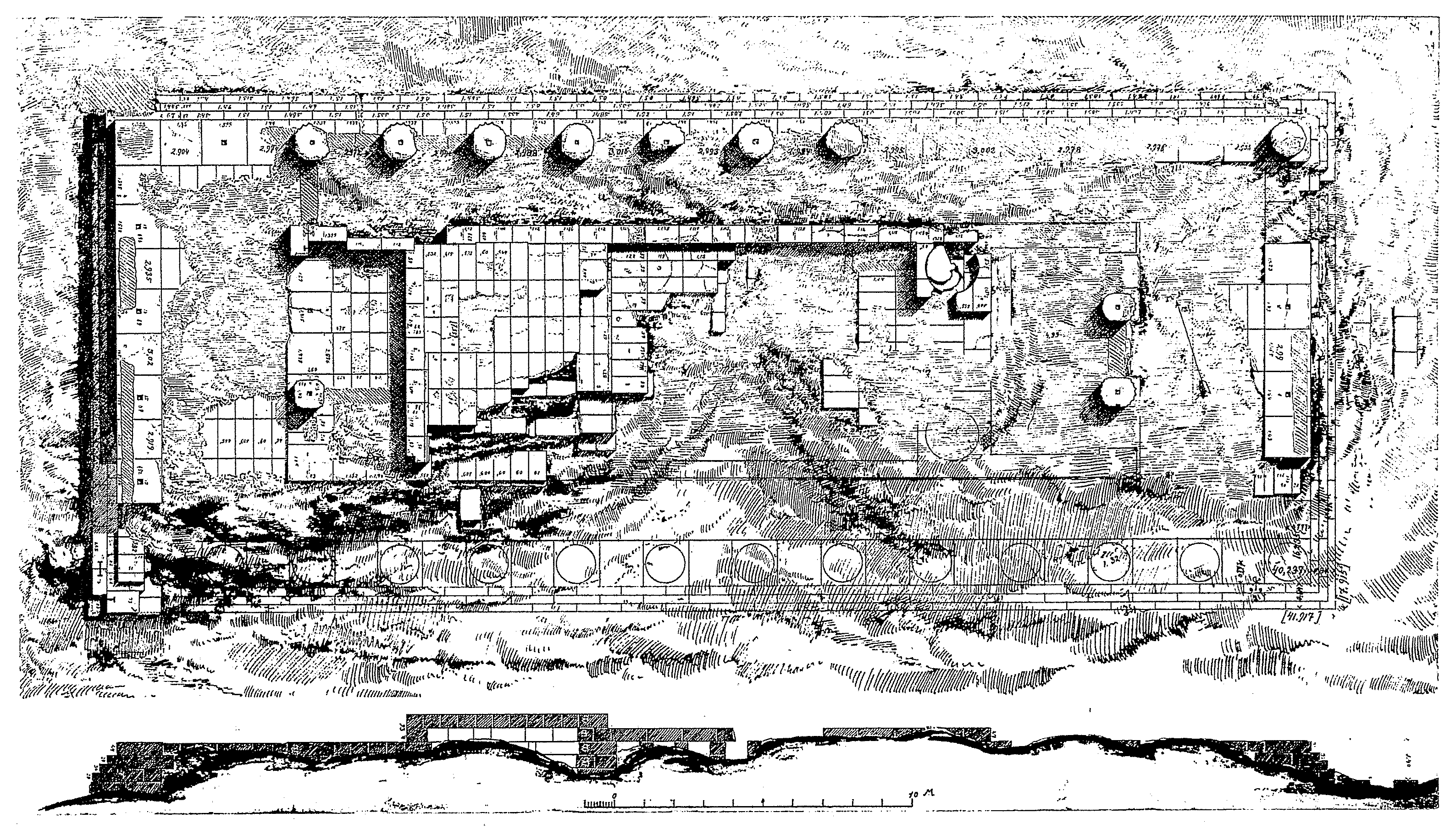 Temple A in Selinunte.